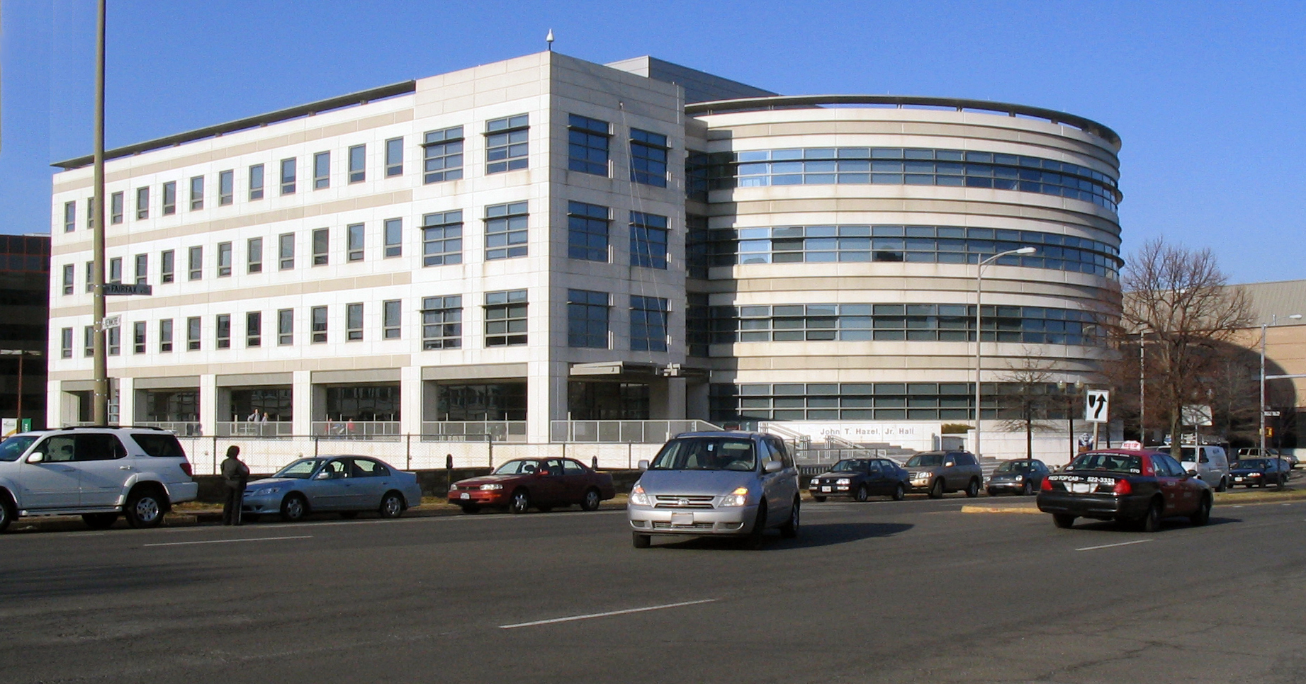 Hazel Hall, George Mason University School of Law.